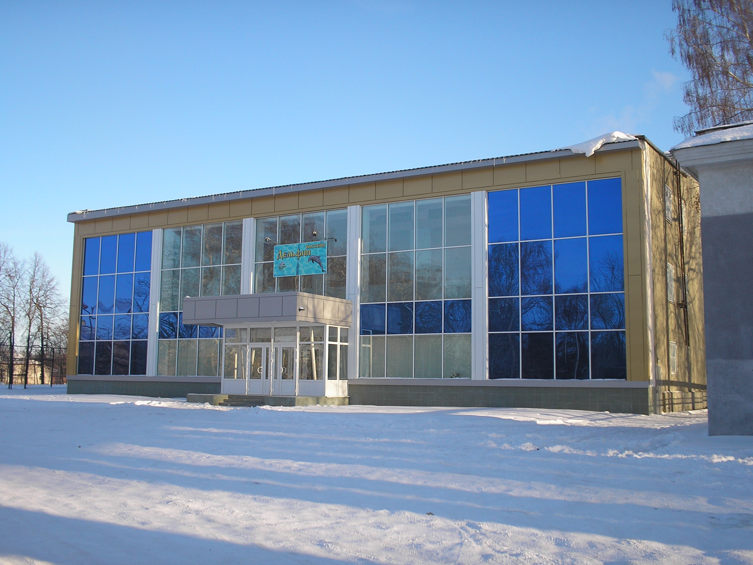 Rtishchevo. The swimming_pool_"Delphin"